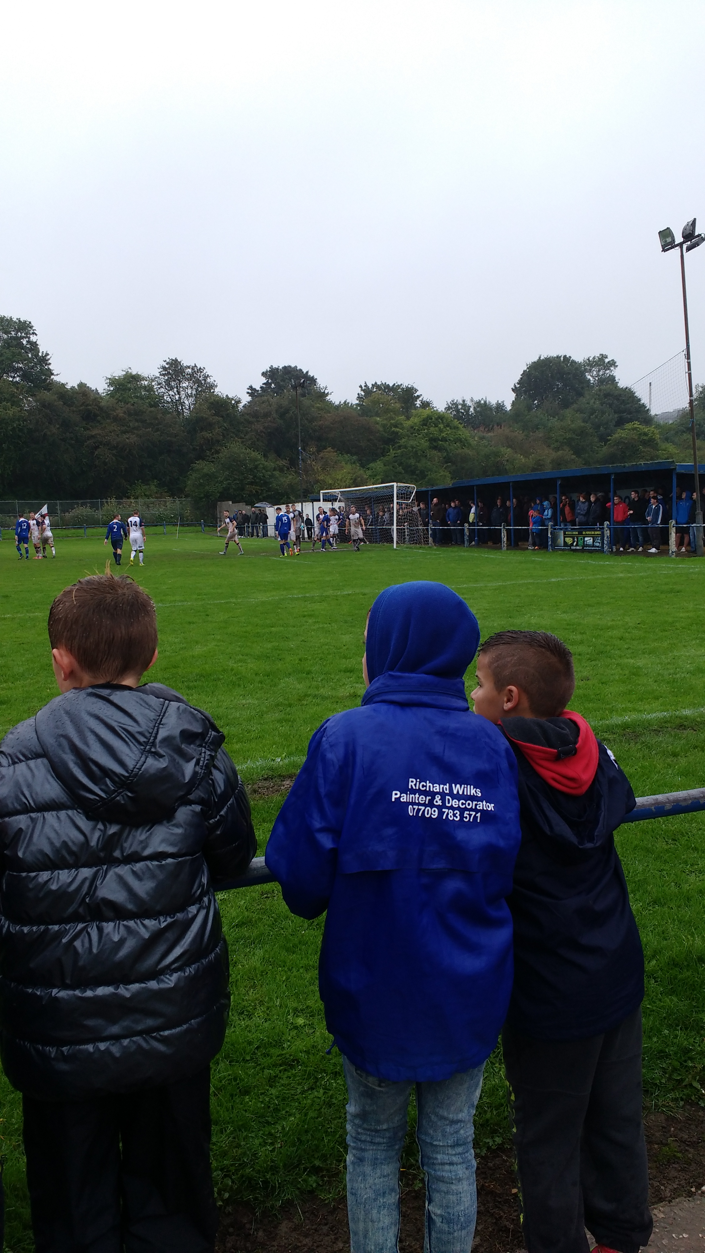 Terrace behind the goals at Pontefract Collieries FC